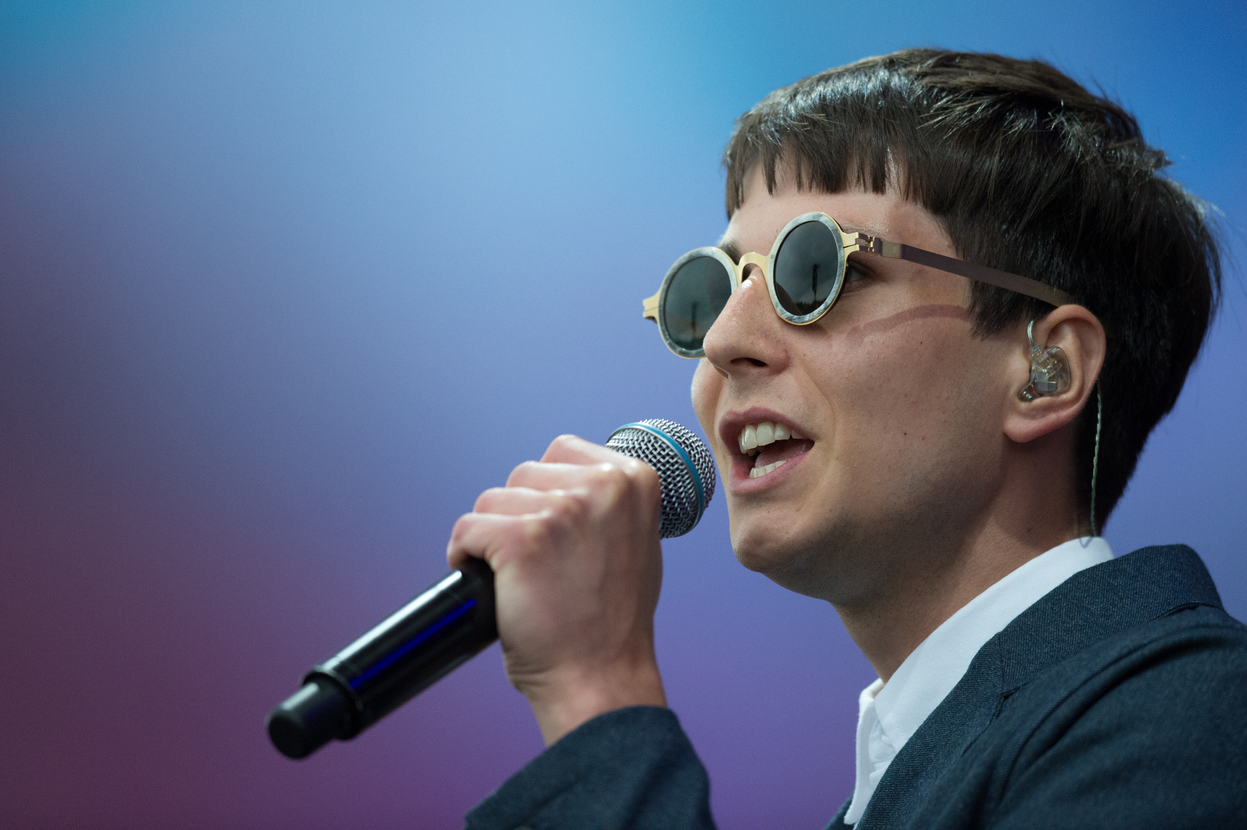 Winnie Who - Orange Stage - Roskilde Festival 2013 Photo by Bill Ebbesen